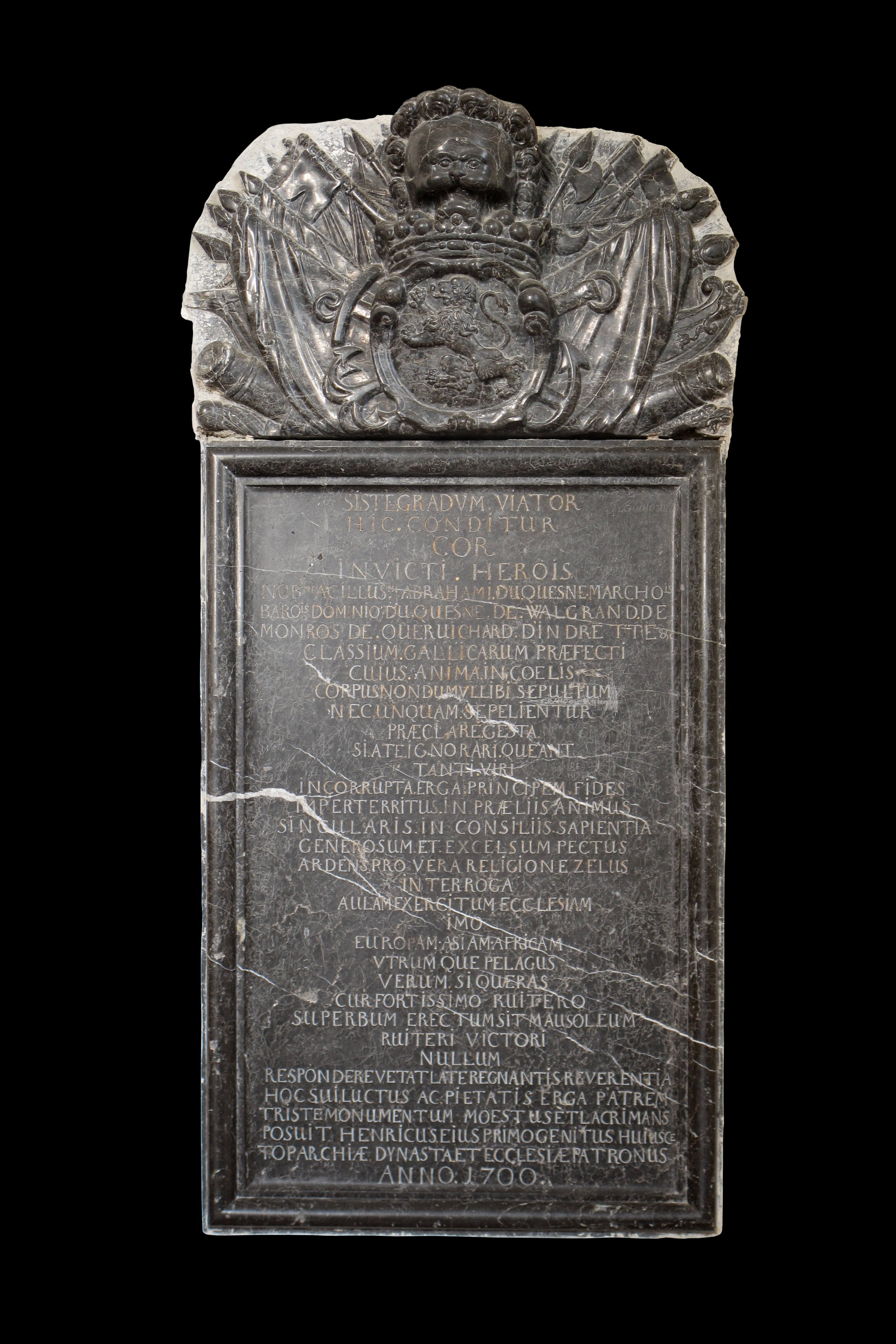 Memorial plaque to admiral Abraham Duquesne in the temple of Aubonne. Siste Gradum Viator Hic Conditur Cor Invicti Herois Nob(ilissi)mi Ac Illus(trissi)mi Abrahami Du Quesne Marchio(n)is Baro(n)is Dominiqu' Du Quesne, De Walgrand, De Monros, De Queruichard, D'Indrettes &c. Classium Gallicarum Praefecti Cuius Anima in Coelis Corpus Nondum Ullibi Sepultum Nec Unquam Sepelientur Praeclare Gesta Si a Te Ignorari Queant Tanti Viri Incorrupta Erga Principem Fidem Imperterritus In Praelii Animus Singularis In Consiliis Sapienta Generosum Et Excelsum Pectus Ardens Pro Vera Religione Zelus Interroga Aulam, Exercitum, Ecclesiam, Imo Europam, Asiam, Africam, Utrumque Pelagus. Verum Si Quaeras Cus Fortissimo Ruitero Superbum Erectum Sit Mausoleum, Ruiteri Victori Nullum, Respondere Vetat Late Regnantis Reverentia. Hoc Sui Luctus Ac Pictatis Erga Patrem Triste Monumentum, Moestus et Lacrimans, Posuit Henricus, Eius Primogenitus, Huiusce Toparchiae Dynasta Et Ecclesiae Patronus, Anno 1700